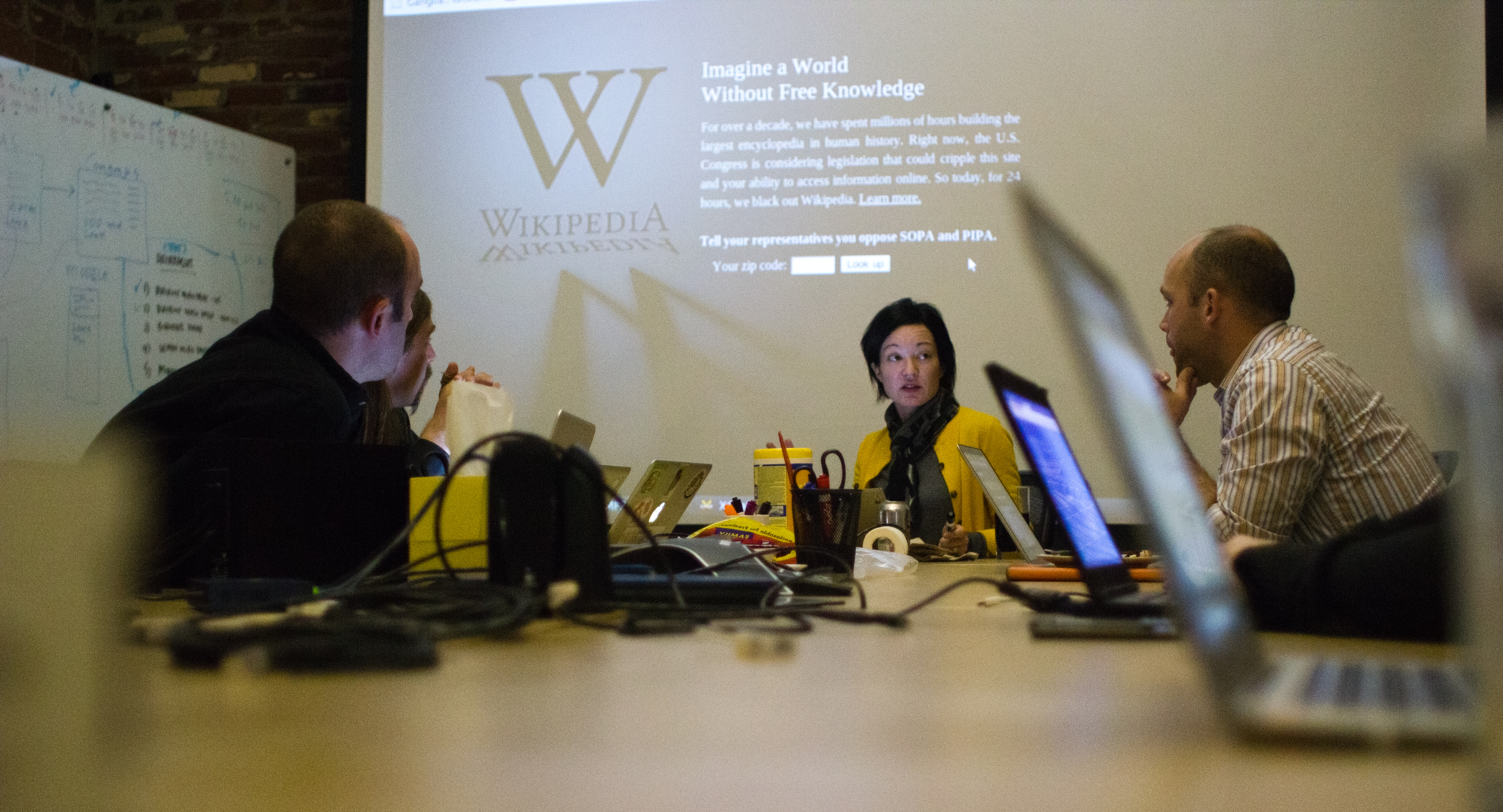 Wikimedia Foundation SOPA War Room Meeting 1-17-2012